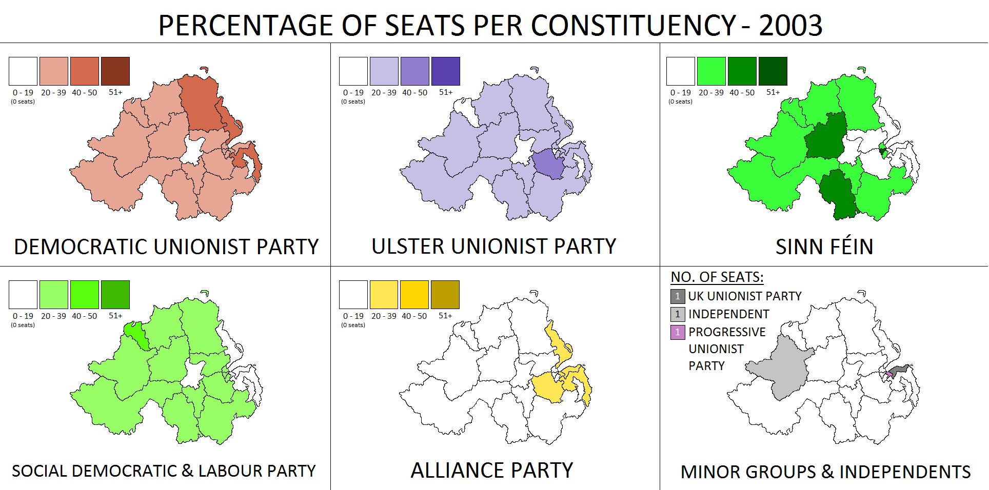 Map showing the results of the 2003 Northern Ireland Assembly elections.